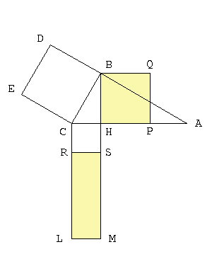 Proof of the second Euclid's theorem Author: user:Roberto Zanasi